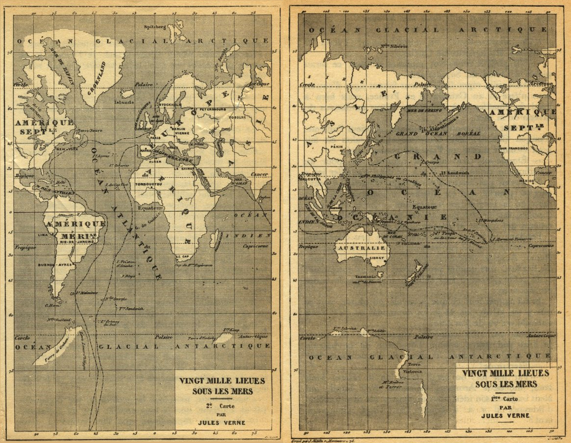 Montage of two illustrations showing the route of the Nautilus in Twenty Thousand Leagues Under the Sea